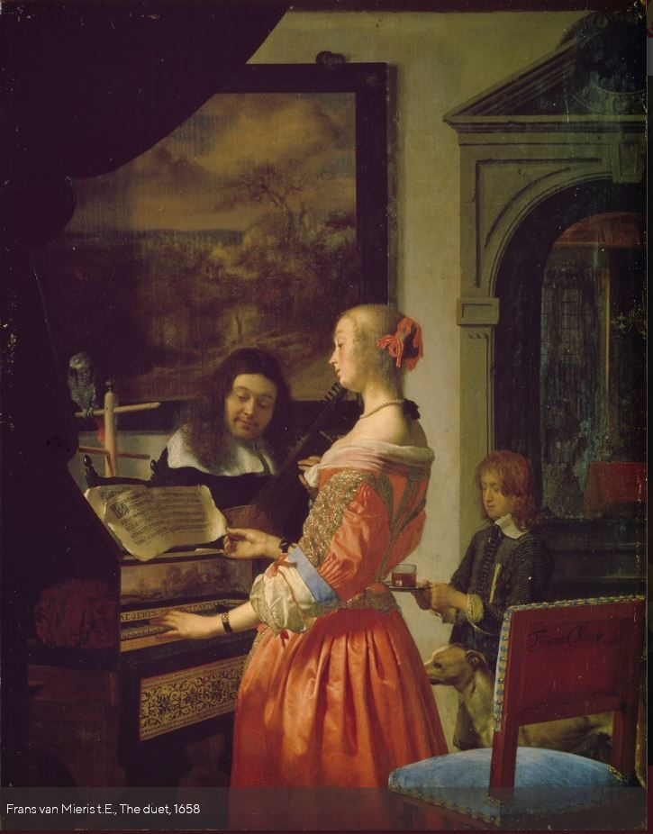 Woman at a harpsichord